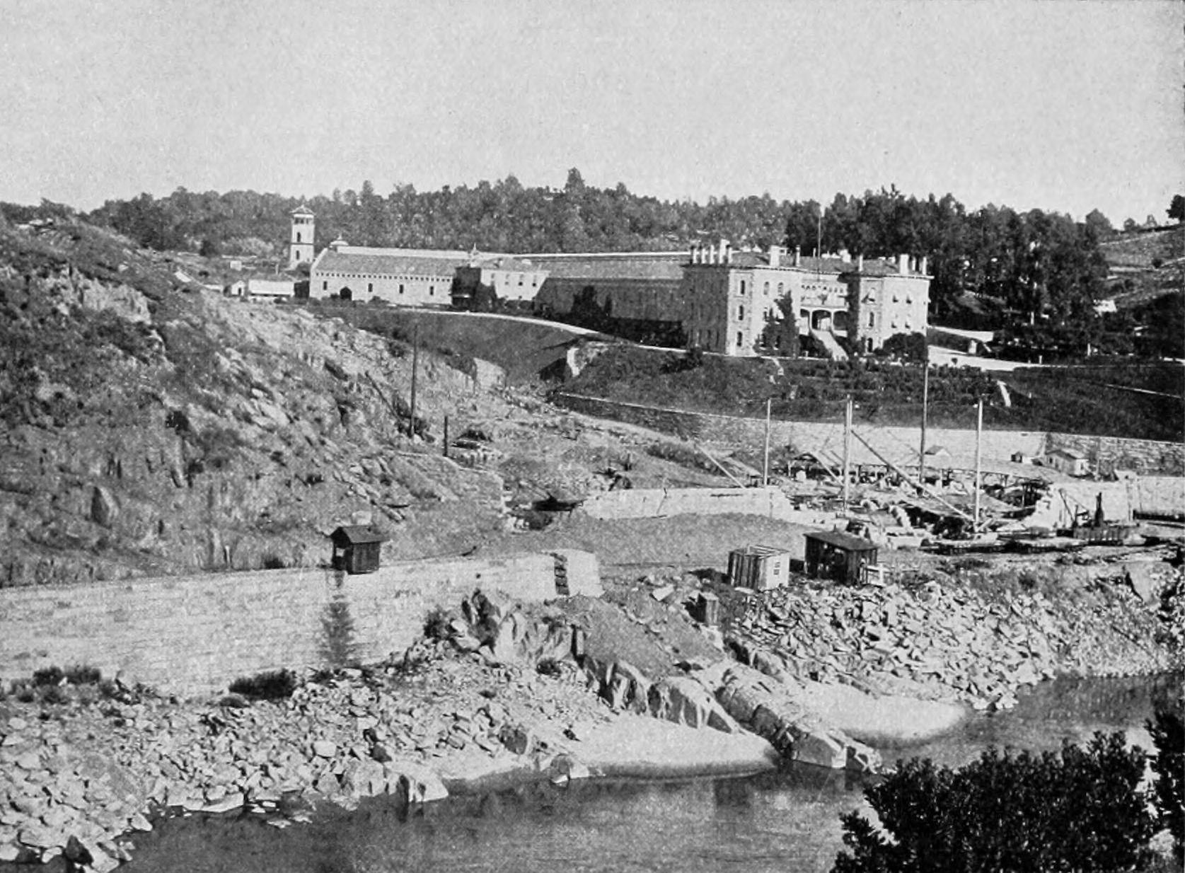 Folsom state prison